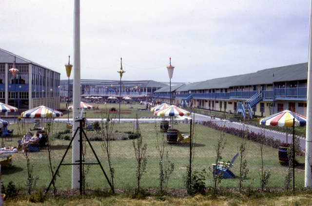 Butlin's Holiday Camp, near to Felpham, West Sussex, Great Britain.